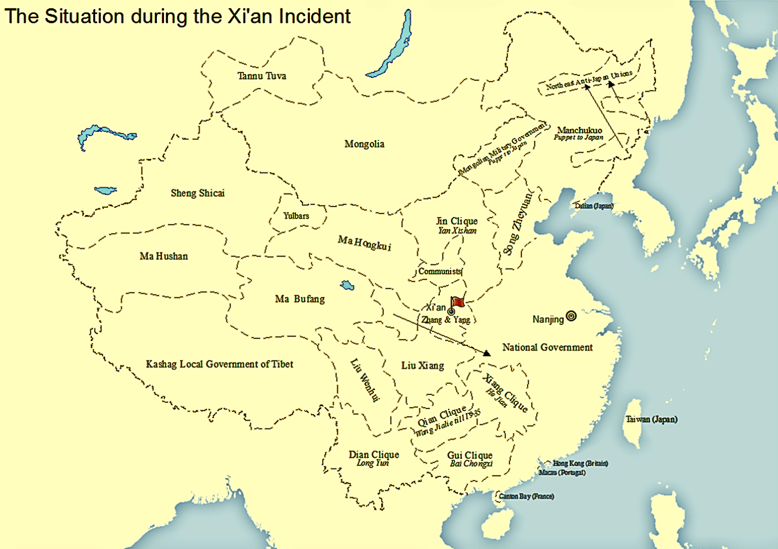 The map showing the situation of China during the Xi'an Incident in December 1936